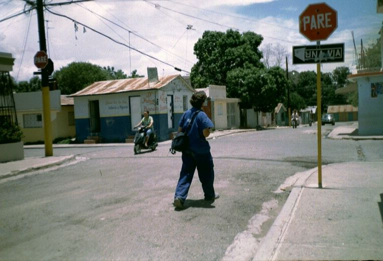 City of Mao,Valverde (Dominican Republic)